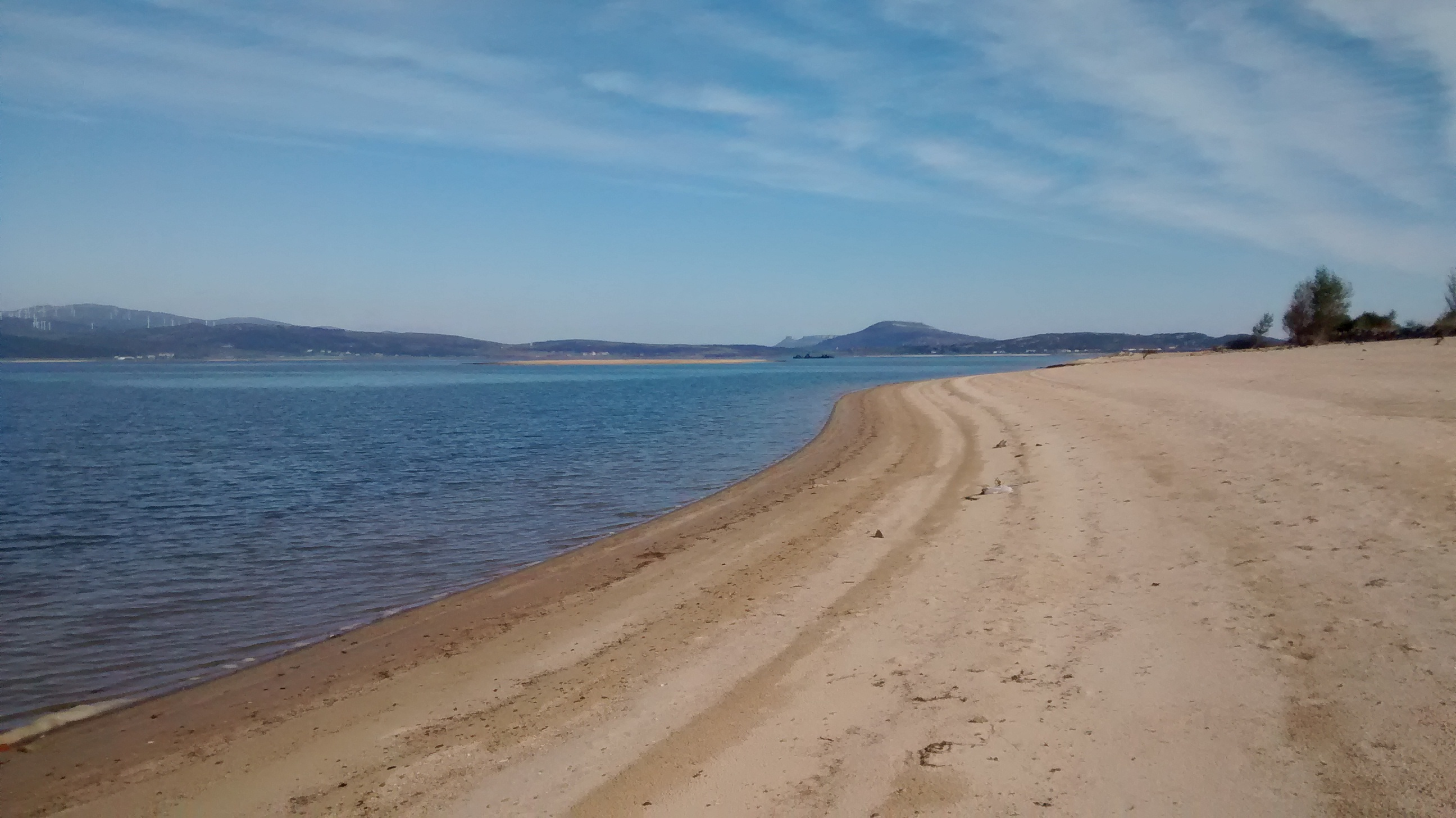 Ebro reservoir seen from the beach of the town of Arija in the province of Burgos (Spain).